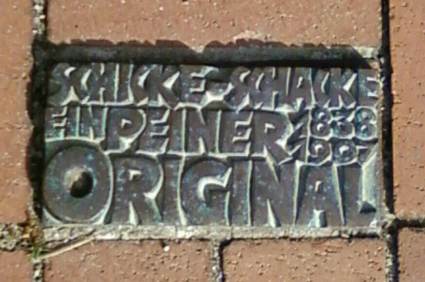 Sculpture of the Dienstmann Karl Kaufmann (Schicke-Schacke), Peine, Lower Saxony, Germany.